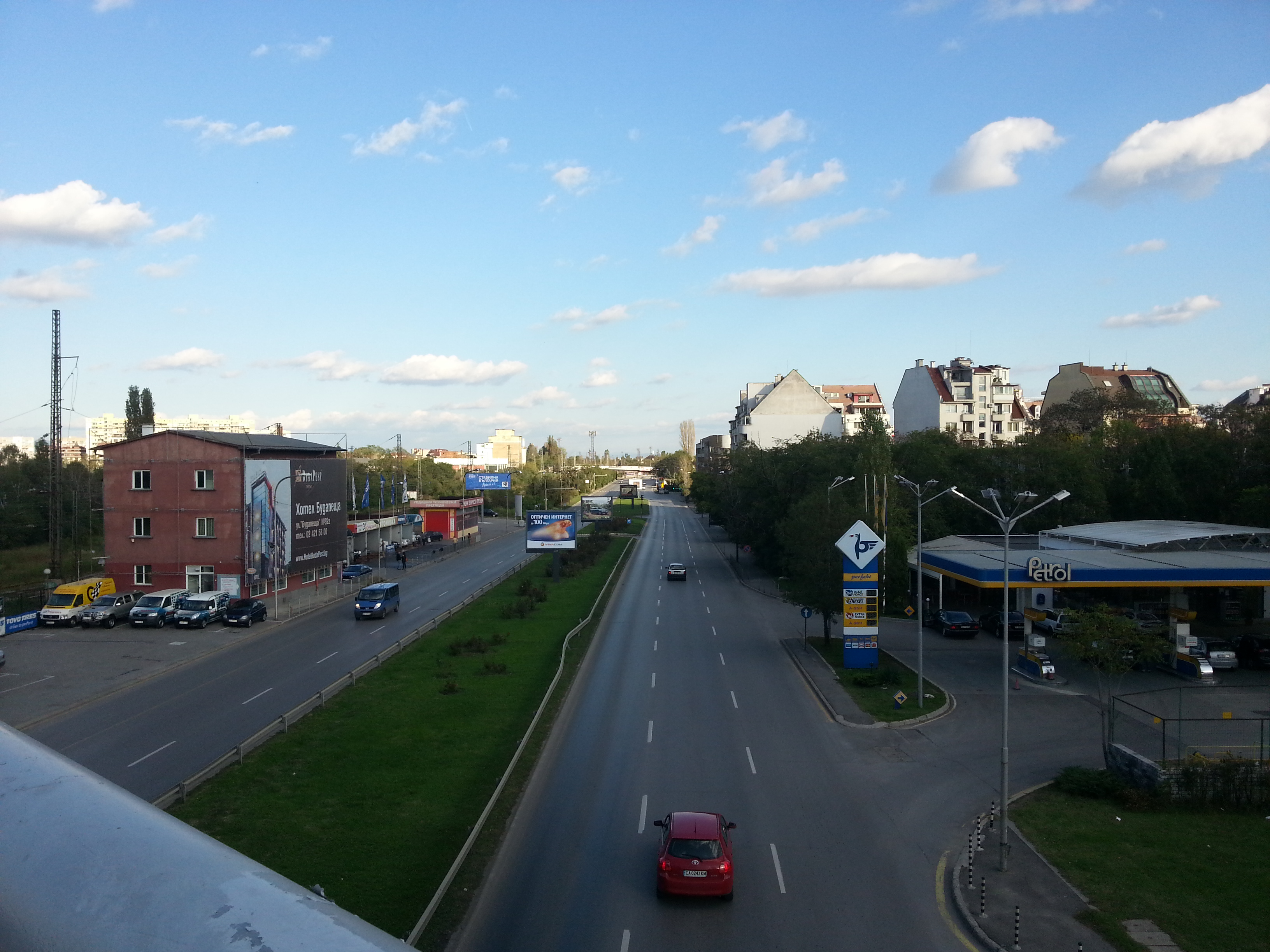 General Danail Nikolaev Blvd. in Sofia